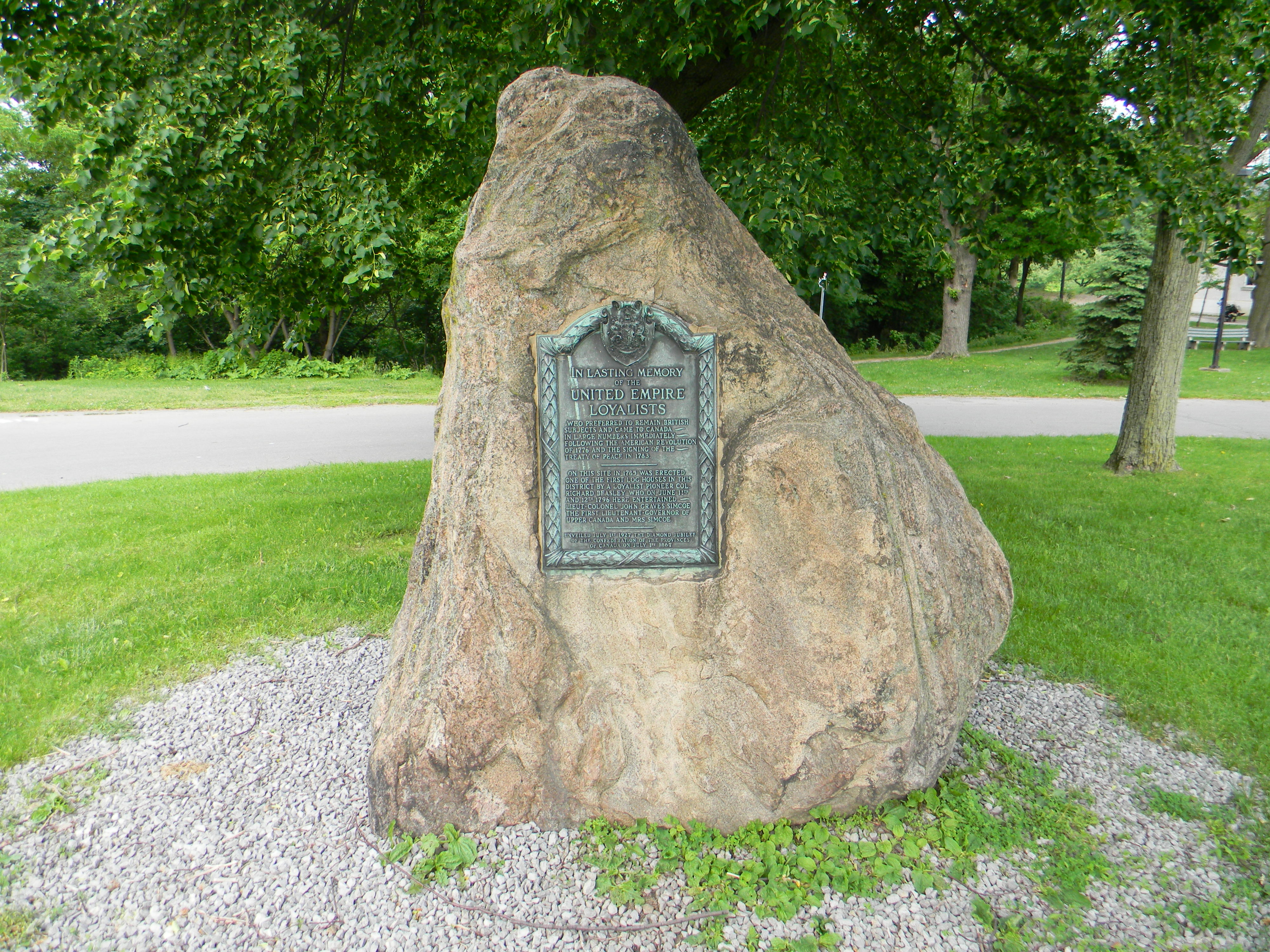 United Empire Loyalist plaque in stone in Hamilton, Ontario in memory of Col. Richard Beasley